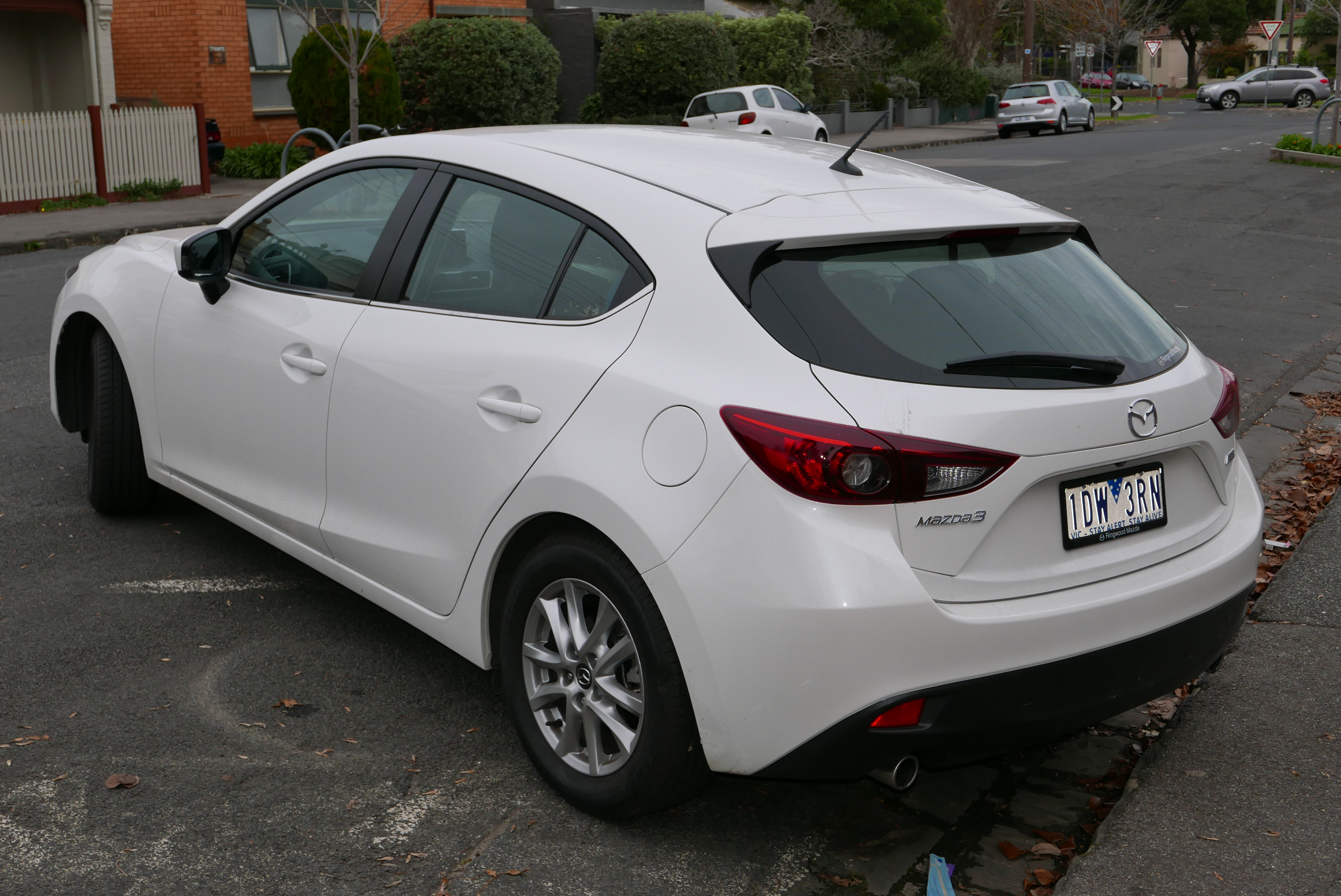 2014 Mazda3 (BM) Maxx hatchback. Photographed in Fitzroy North, Victoria, Australia. Vehicle registration enquiry resultsJurisdictionVictoriaRegistration1DW3RNChassis codeJM0BM547810165913Engine codePE20604310Compliance date2014-12Year of manufacture2014